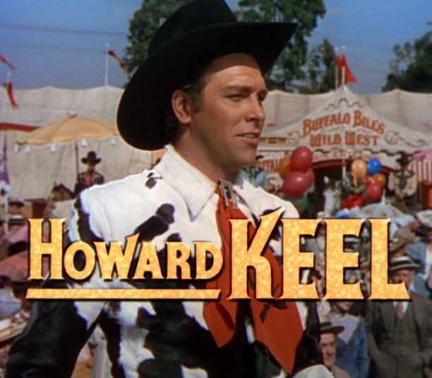 Cropped screenshot of Howard Keel from the trailer for the musical film Annie Get Your Gun (1950).